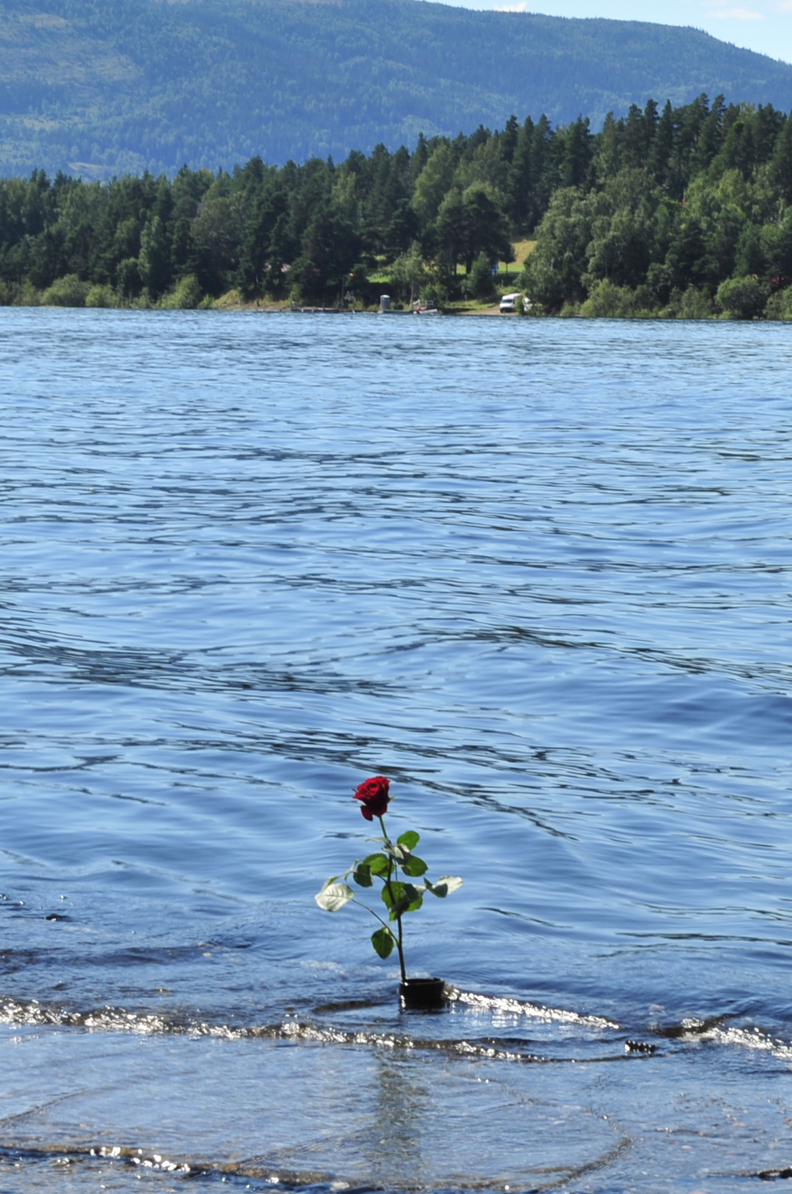 Picture of the Norwegian people who comemmorates the killed youts at Utøya. The access place at Utøya in the background.